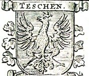 Coat of Arms of Duchy of Teschen in Upper Silesia, as on map of 1746